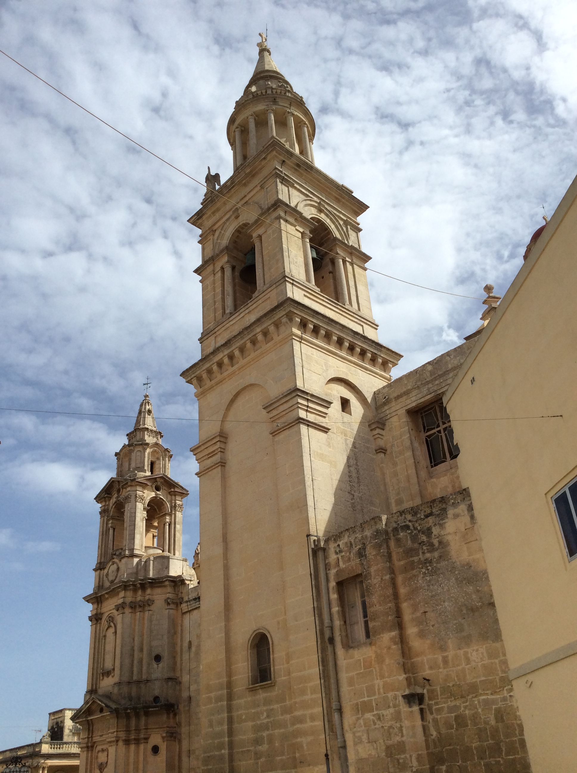 Buildings in Gudja